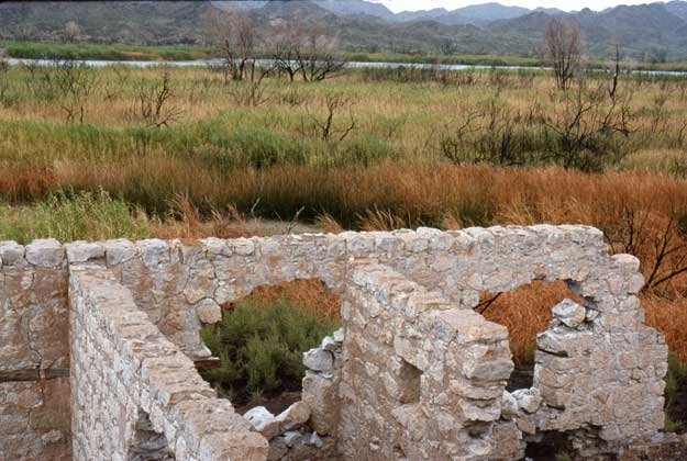 Ruins of the old ore processing mill overlooking the Colorado River near the site of Picacho, California.